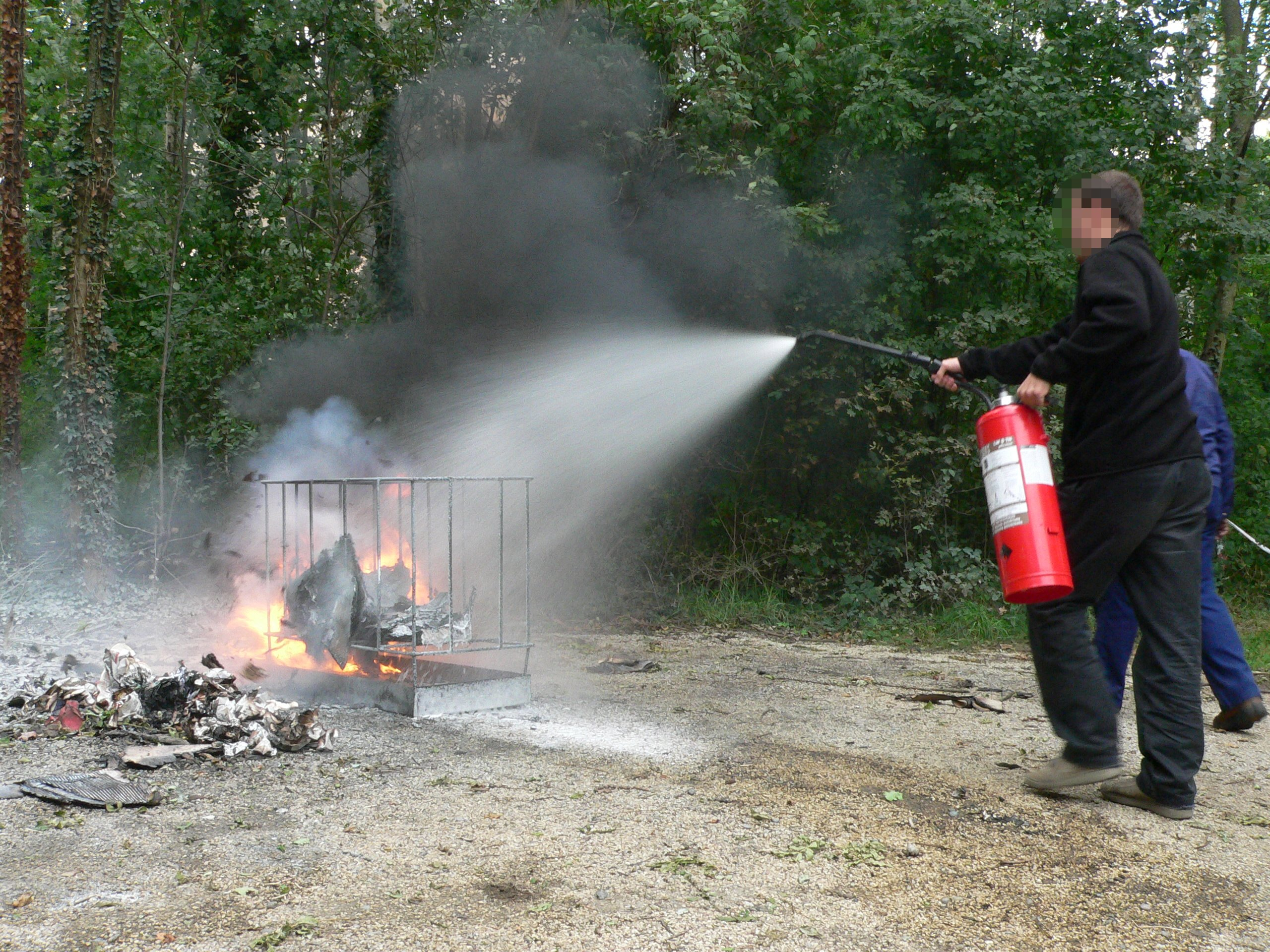 Extinguishing of a petrol fire